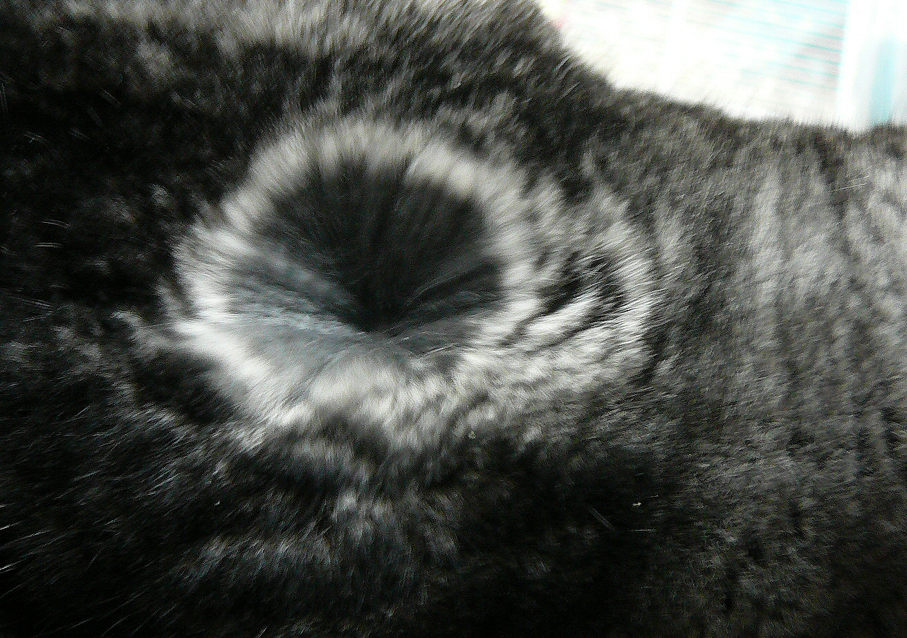 Chinchilla's fur of a living animal when you blow on it - Alive grey domestic chinchilla